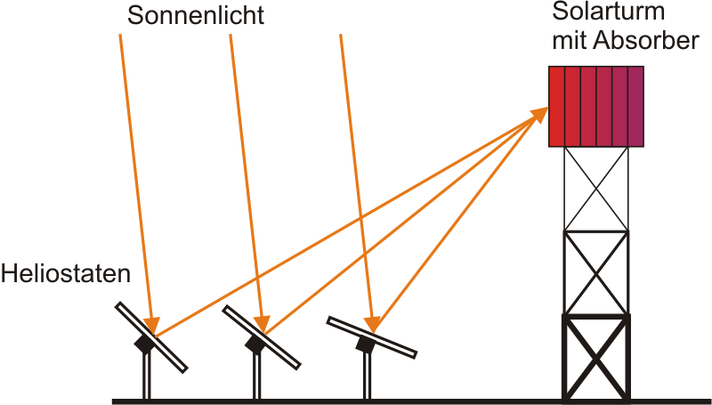 diagram of a solar power tower